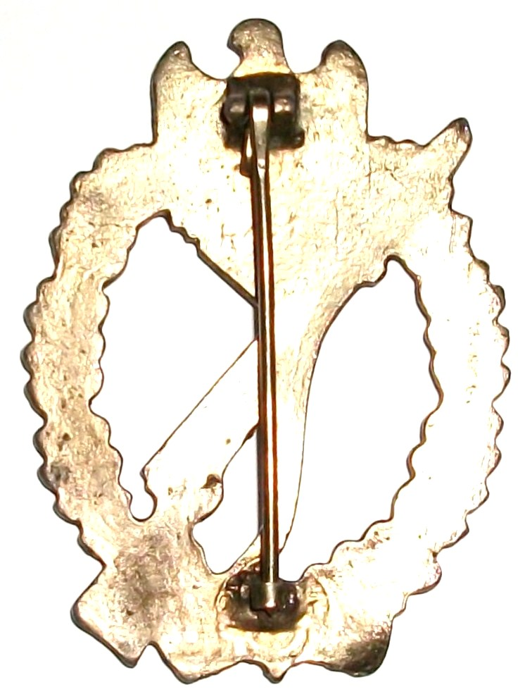 The back side of a modern copy of an Infanterie-Sturmabzeichen in Bronze